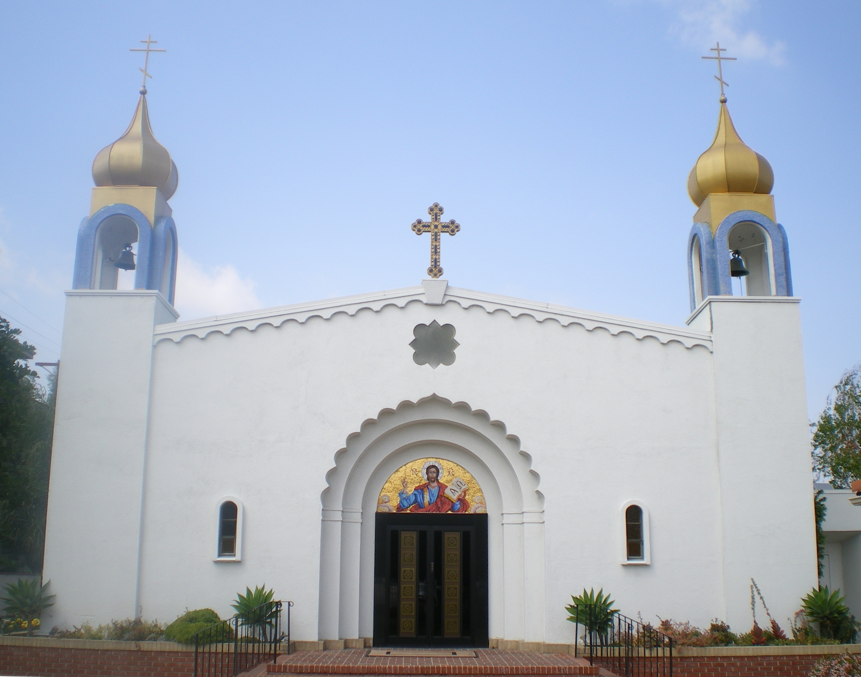 Cathedral of St. Mary Byzantine Catholic Church, Sepulveda Blvd., Van Nuys, Los Angeles, California